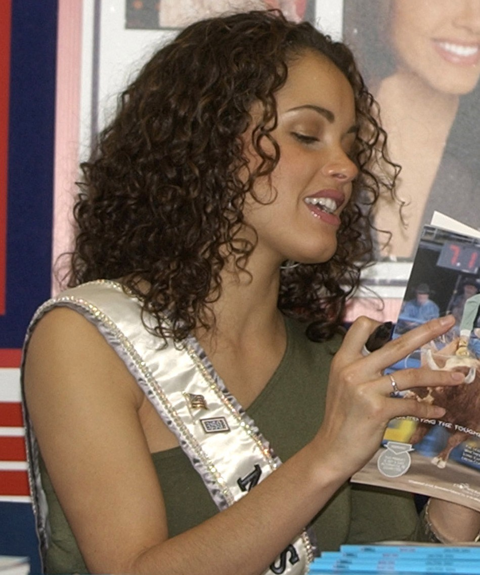 Miss USA 2003 Susie Castillo signs an autograph for Lt. Col. Tony Healy, a civil/military planner with the 354th Civil Affairs Brigade, at Fort Bragg's South Post Exchange complex.